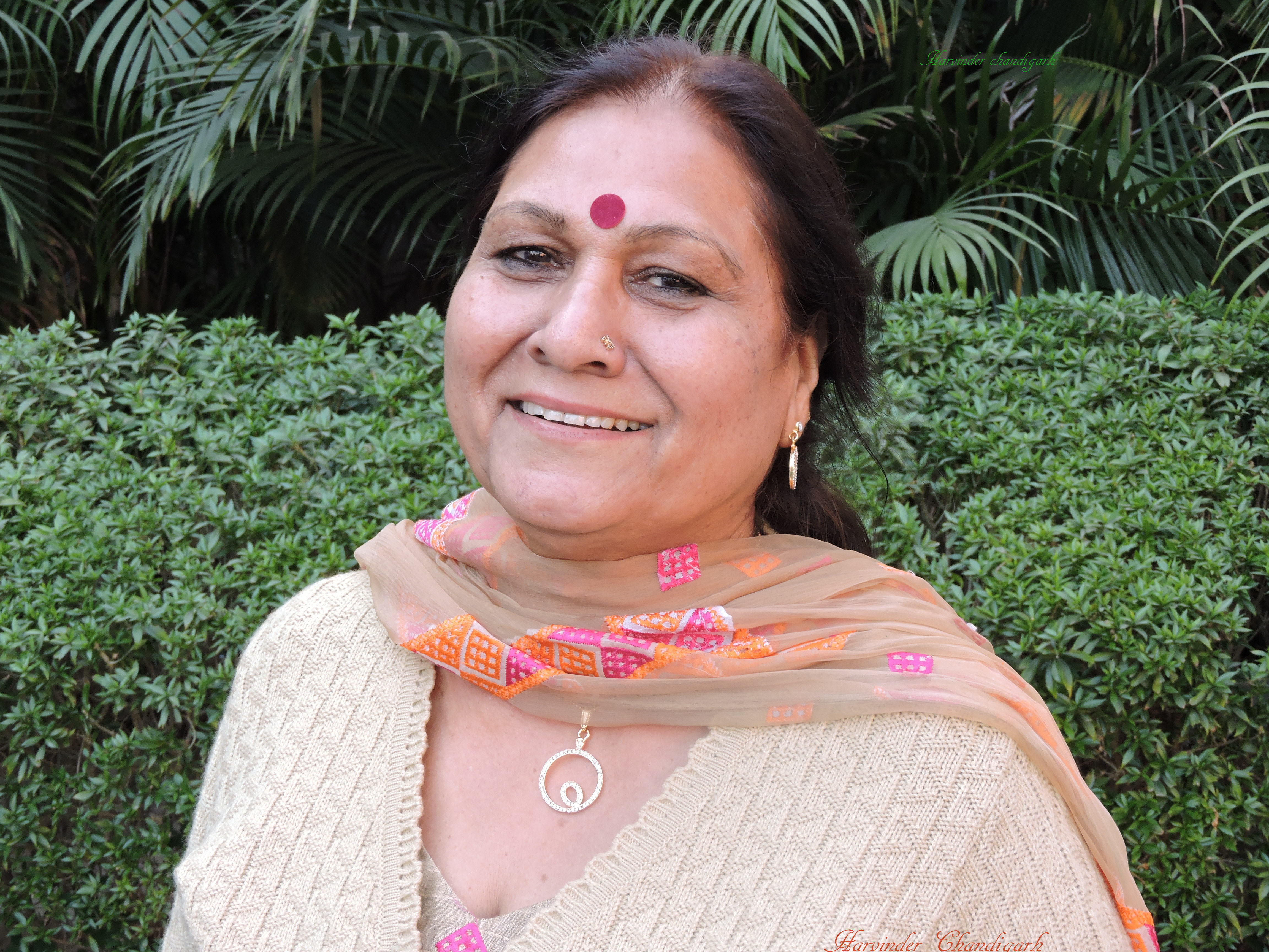 Manjit Indra , Punjabi Poetess, Chandigarh, India